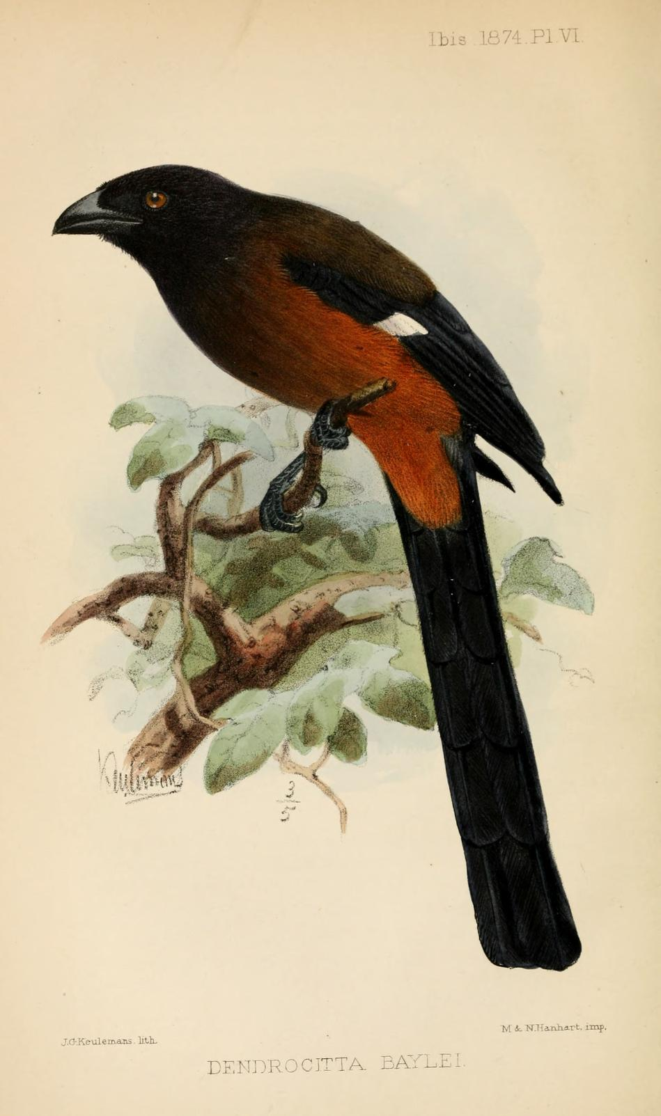 « Dendrocitta baylei » = Dendrocitta bayleii (Andaman Treepie)